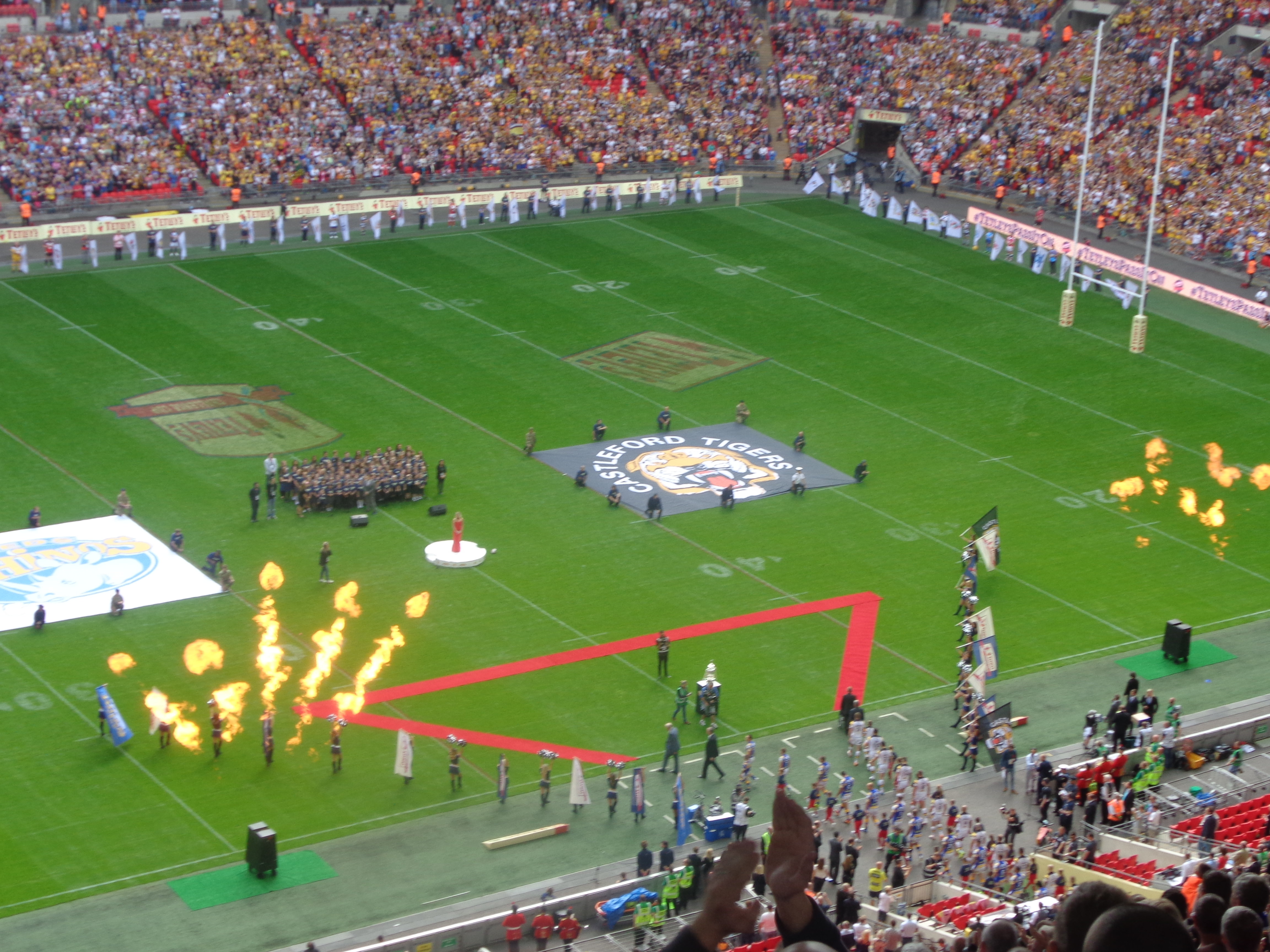 The teams line up on the pitch at Wembley Stadium before the 2014 Challenge Cup Final between Leeds Rhinos and Castleford Tigers. The match was won 23-10 by the Leeds Rhinos with Ryan Hall taking the Lance Todd Trophy and was kicked off on 3pm on Saturday the 23rd of August 2014.